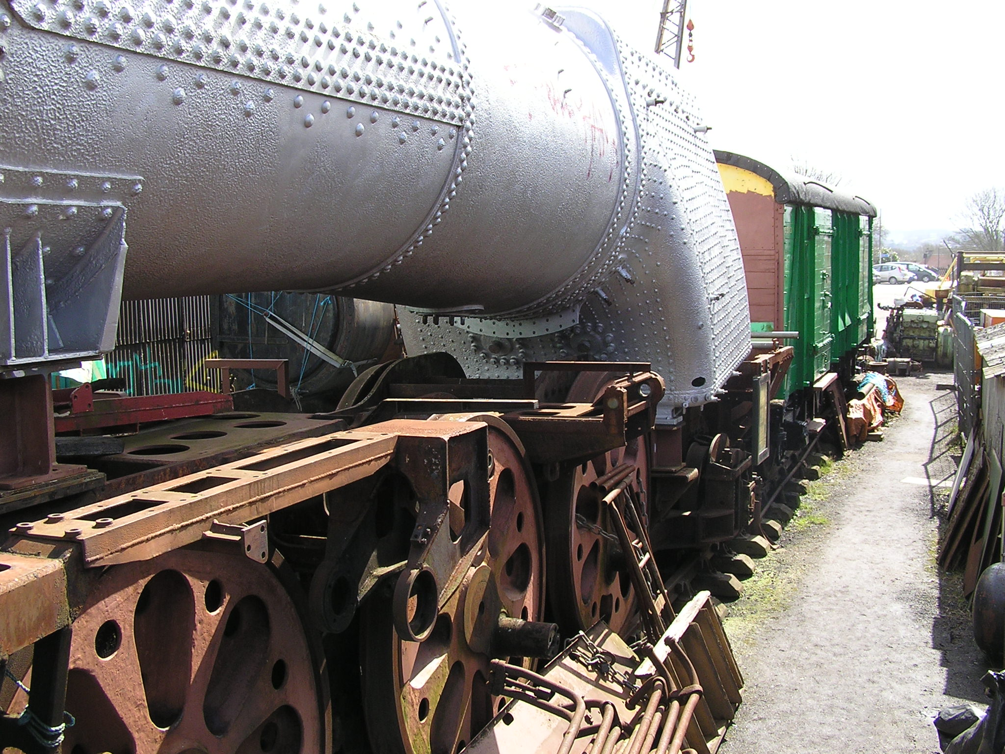 Built Brighton Works 1947, rebuilt 1960, withdrawn from Eastleigh 1964